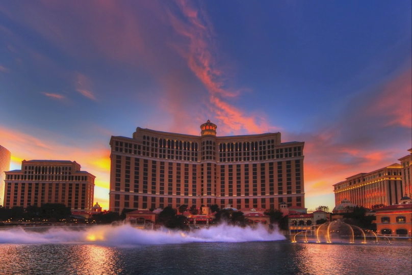 My first time lapse video, 119 photos at 3 second intervals, compressed to 0.3 second intervals. First batched processed in Photomatix Details Enhancer, and then batch processed in Photoshop to remove noise, straighten the verticals and add contrast using a multiply layer at low opacity. About 4 hours of processing on my MacBook Pro.